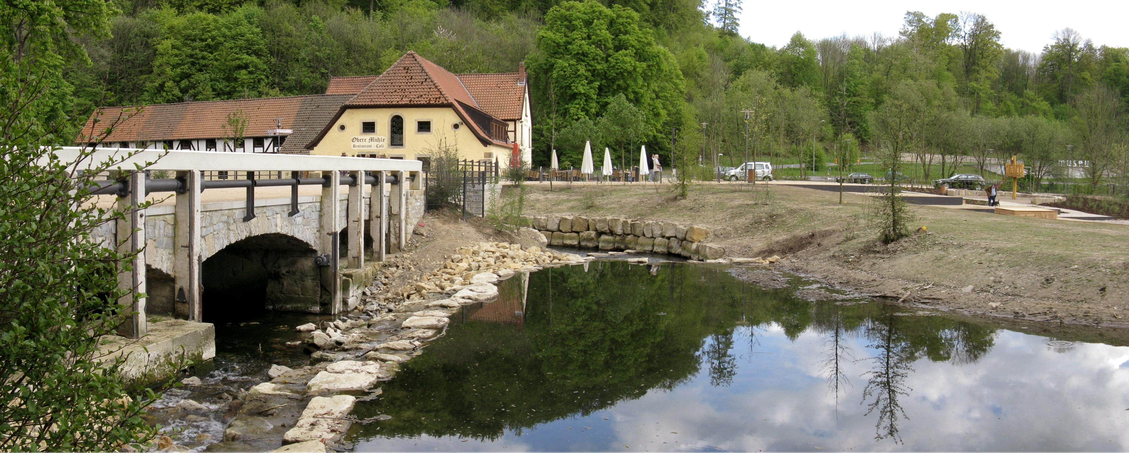 River Berlebecke at the "Obere Mühle" in Detmold, North Rhine-Westphalia